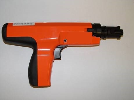 This is a powder actuated tool used in the construction industry.